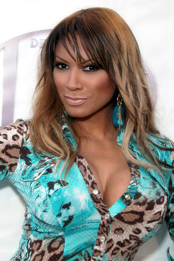 Traci Bingham aboard the "Fantasea One" for the Deep Flight - Lux5 Cocktail Social Yacht Cruise for "Make A Wish" Foundation aboard the "Fantasea One" - Marina del Rey, CA